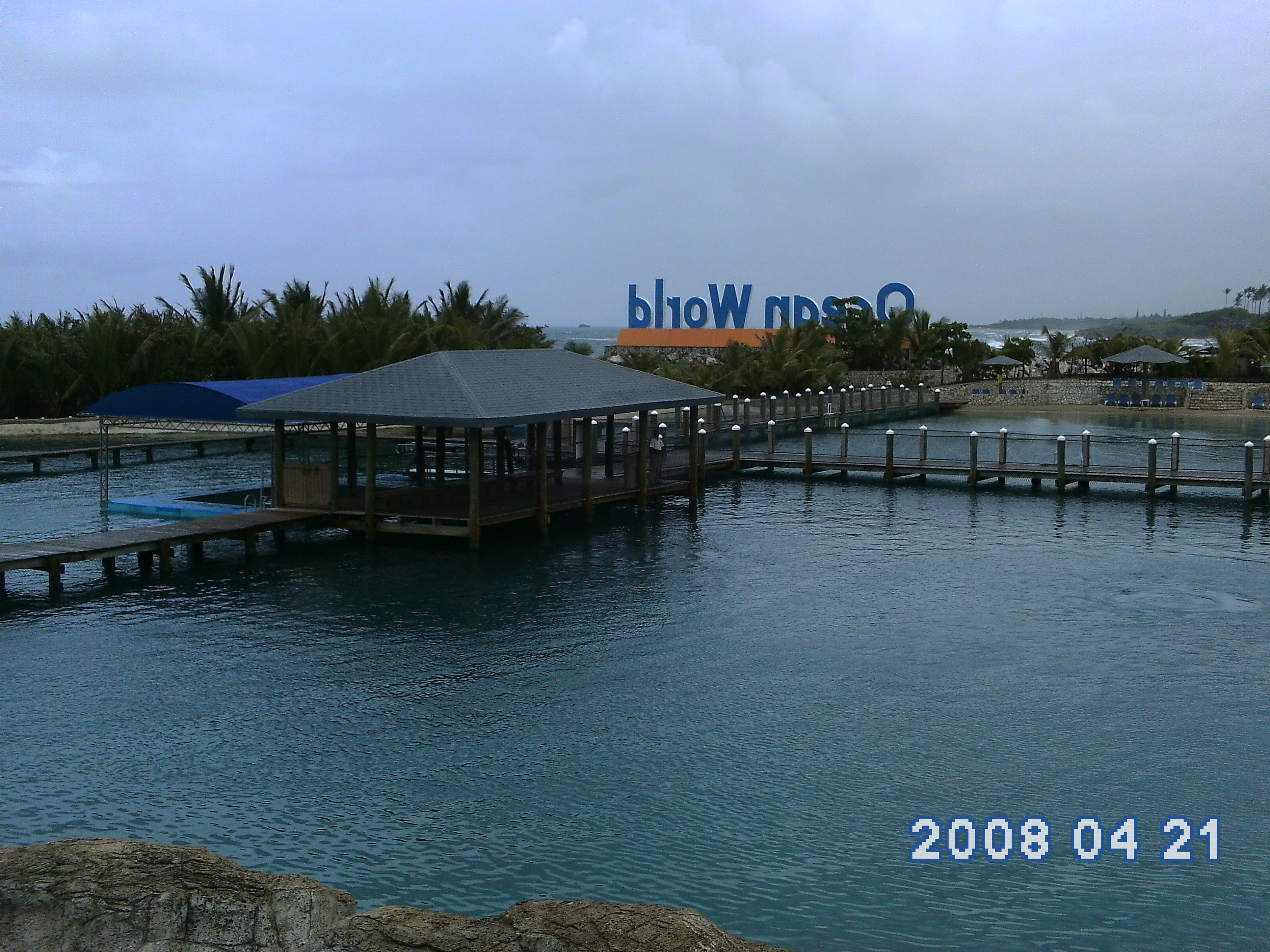 o world 01.JPG